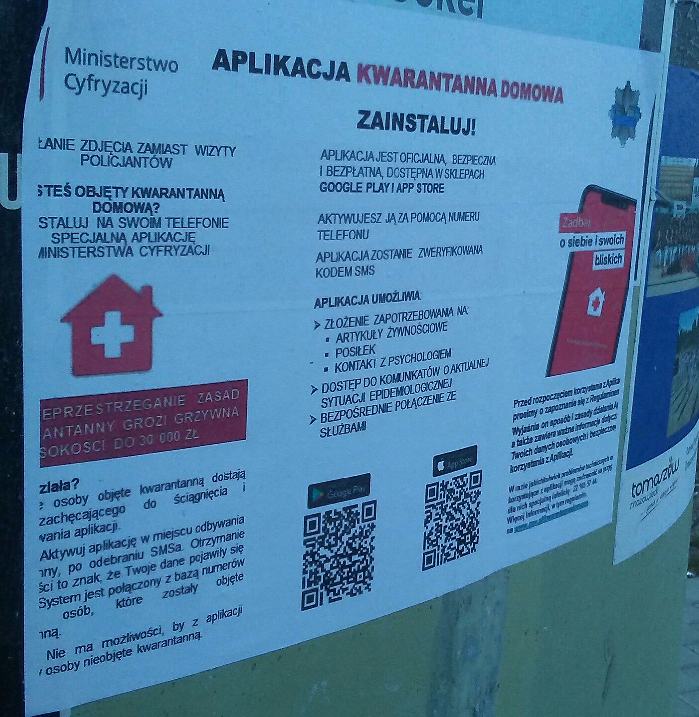 Polish Ministry of Health announcement about the application "Home quarantine"